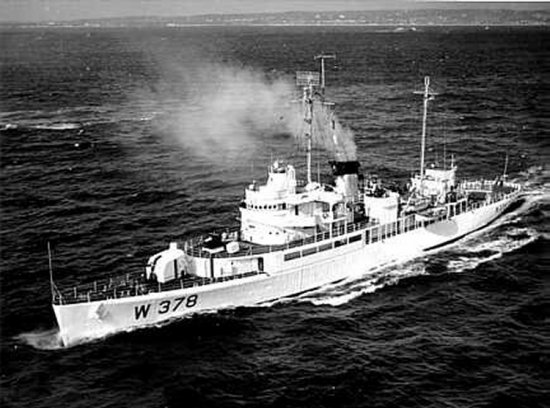 United States Coast Guard cutter USCGC Half Moon (WAVP-378), later WHEC-378.